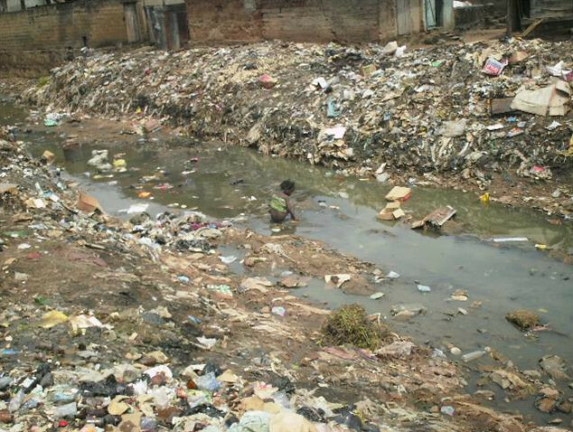 Child defecating in a canal in the slum of Gege in the city of Ibadan, Nigeria (Photo: Adebayo Alao, Sept. 2007)